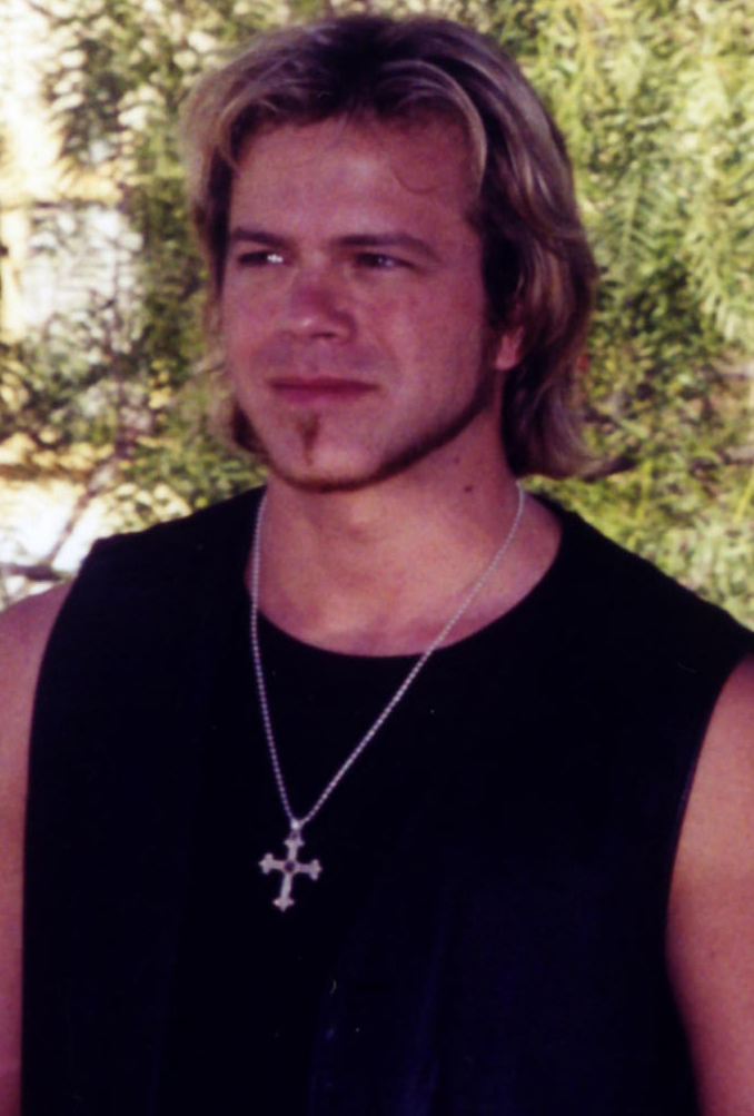 Brian Gaskill in June 2007.